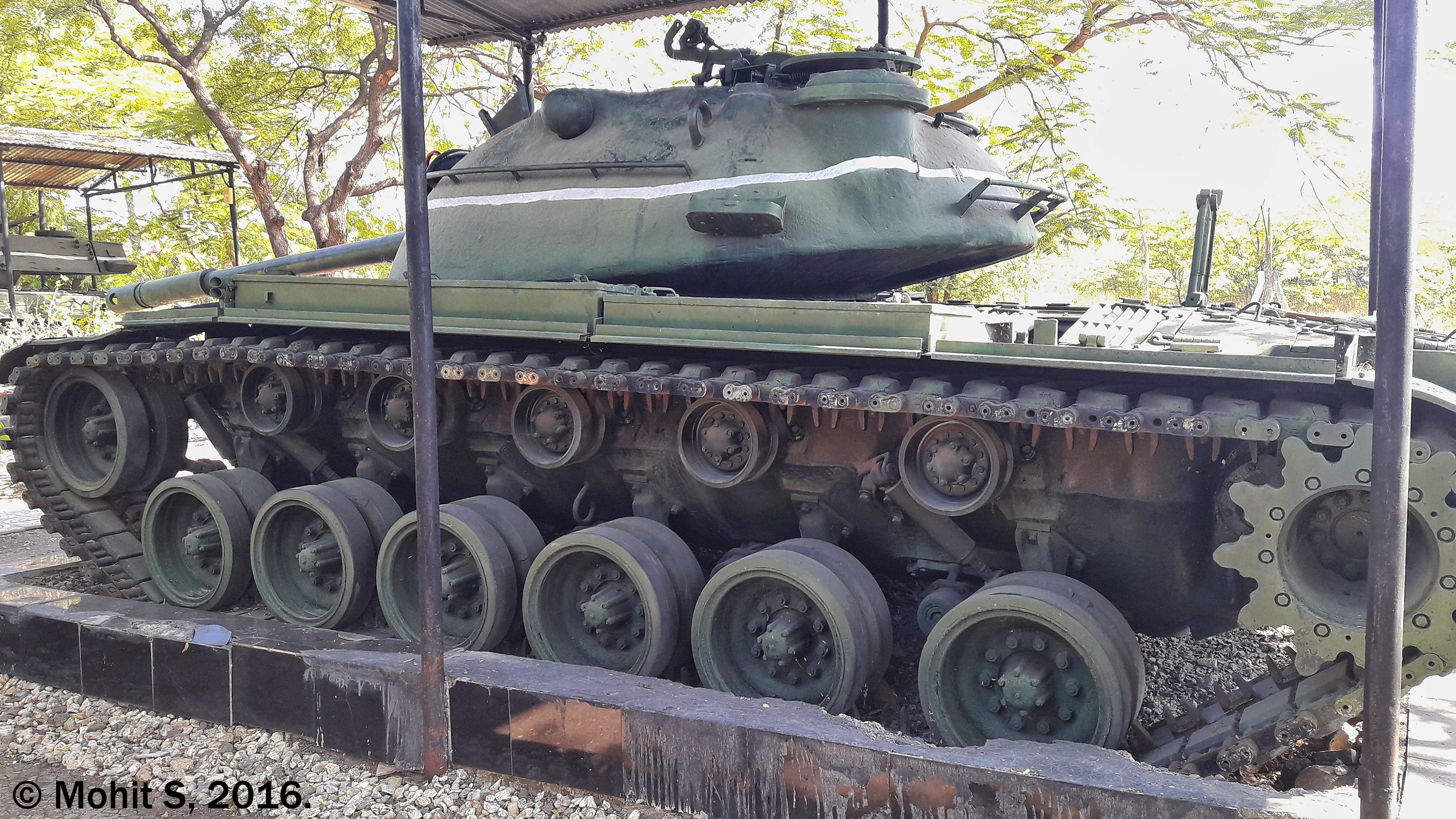 American made captured pakistani M-48 Patton tank. During 1965 Indo-pak war pakistani armour was largely American-made. The M48 tank were widely used by pakistani forces. In the Battle of Asal Uttar, Indian Army destroyed 97 pakistani tanks and some were captured. Captured tanks were in good working conditions. Indian army's Centurion battle tank, with its 105 mm gun and heavy armour, performed better than the overly complex Pattons. The Battle of Asal Uttar is described as one of the greatest tank battles since the Battle of Kursk in the second world war. (The picture is been edited) -More informationℹ about the Asia's only historic tank museum can be found here and here Location: Cavalry Tank museum, Maharashtra, India. Clicked from Samsung J7-6.